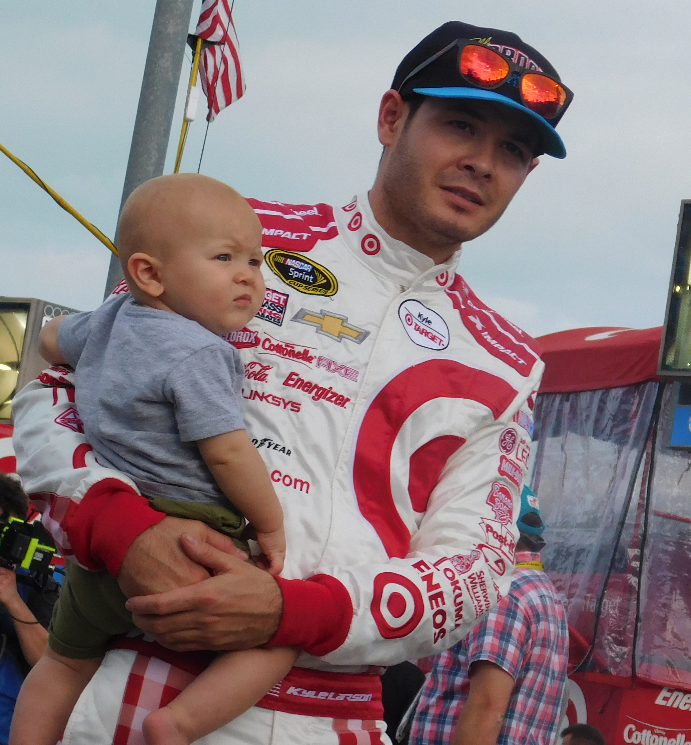 Kyle Larson at Homestead–Miami Speedway in 2015